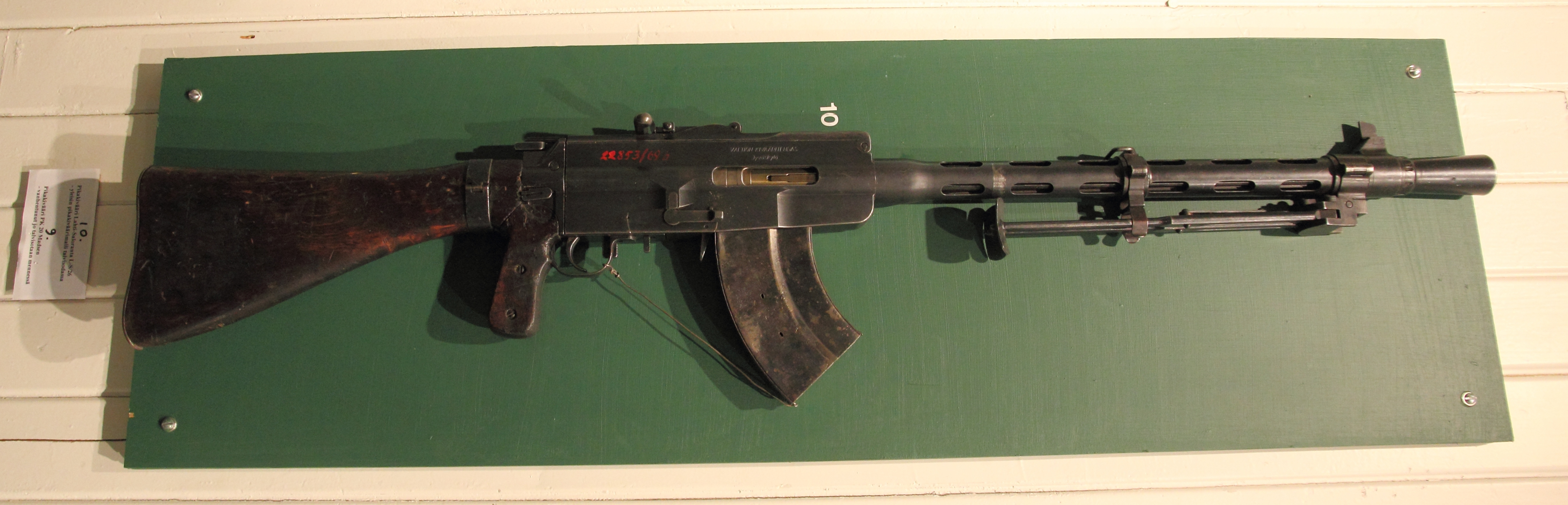 Finnish Lahti-Saloranta m/26 light machine gun. Photographed in Mikkeli Infantry museum.